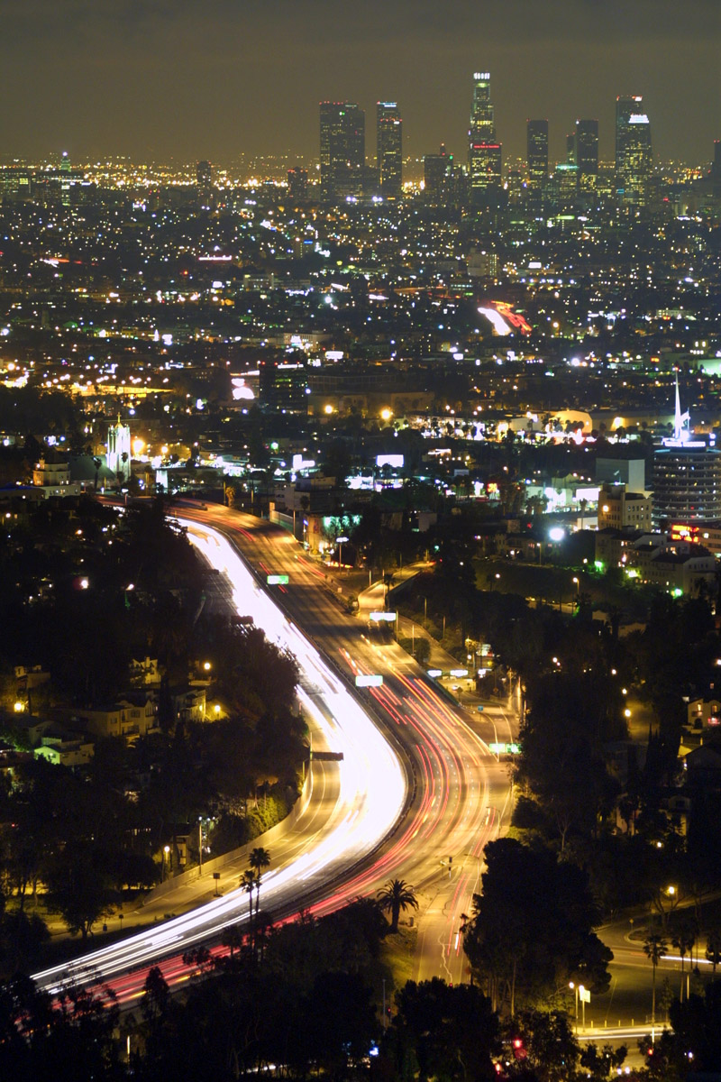 Nighttime view of Downtown L.A. and the Hollywood Freeway – The Hollywood Freeway is one of the principal freeways of Los Angeles (the boundaries of which it does not leave) and one of the busiest in the United States. It is the principal route over the Cahuenga Pass, the principal shortcut between the Los Angeles Basin and the San Fernando Valley.